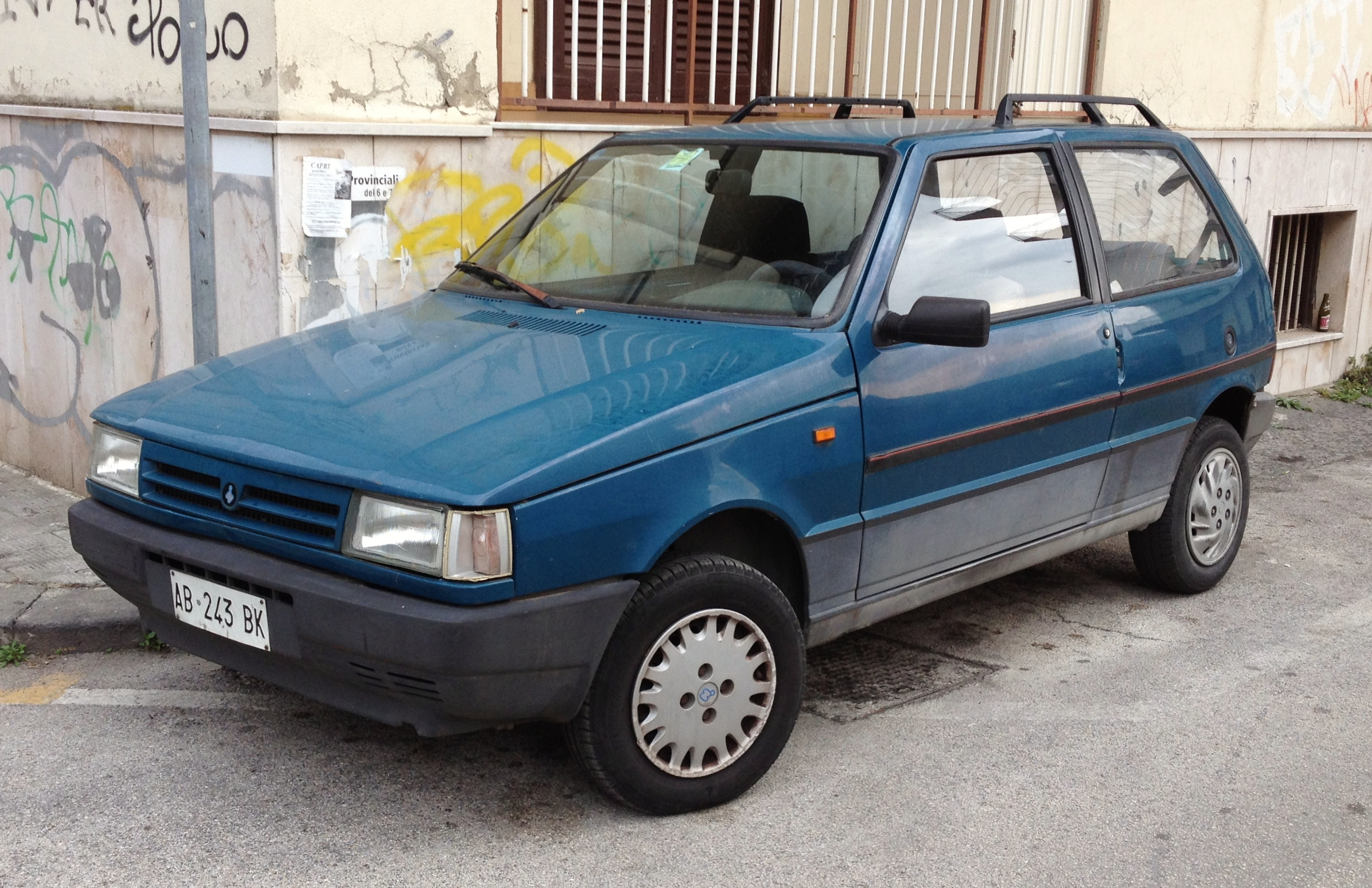 Innocenti Mille 3door blue front